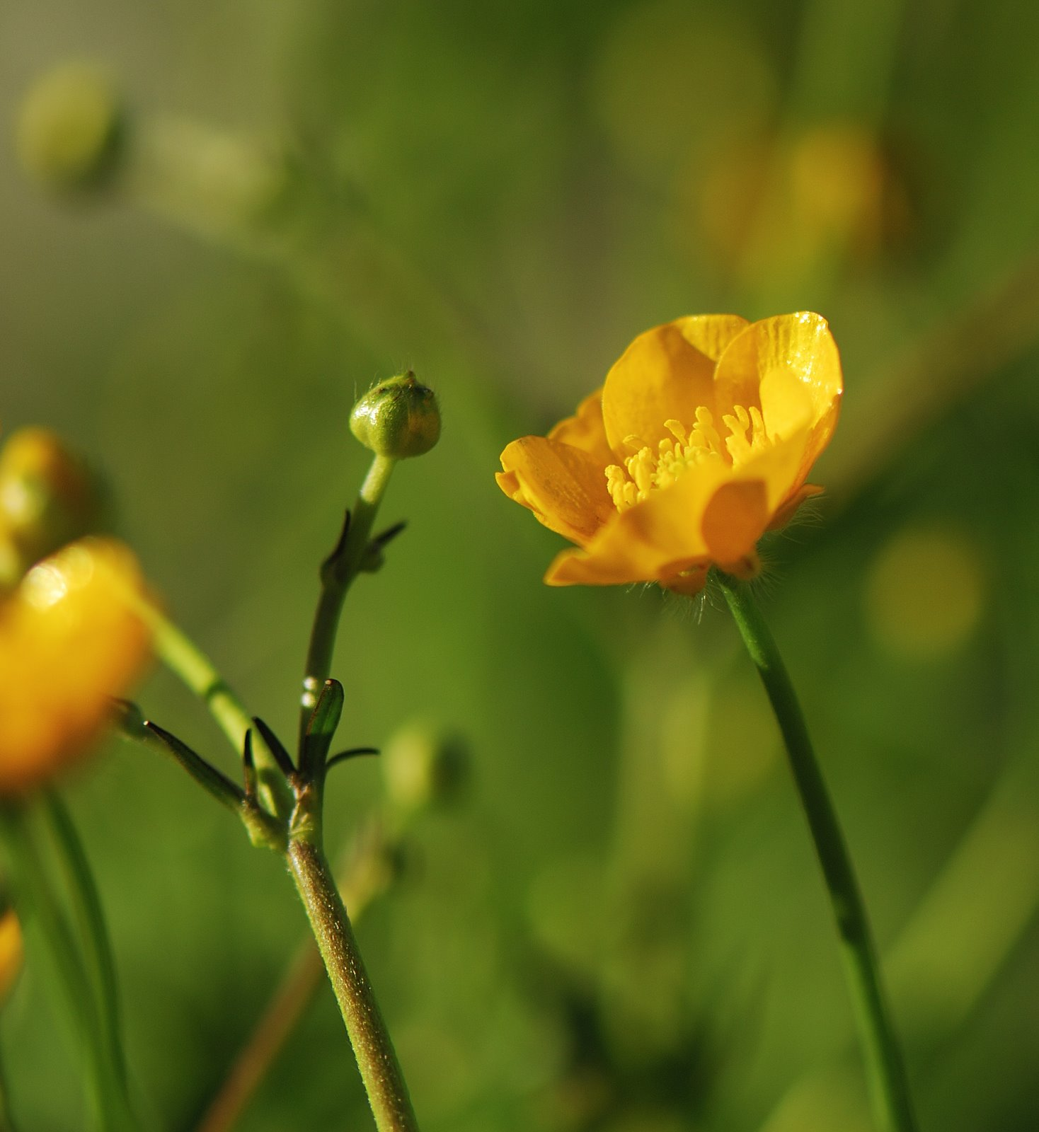 Photo of Ranunculus acris taken in the garden of Linneaus in Uppsala.